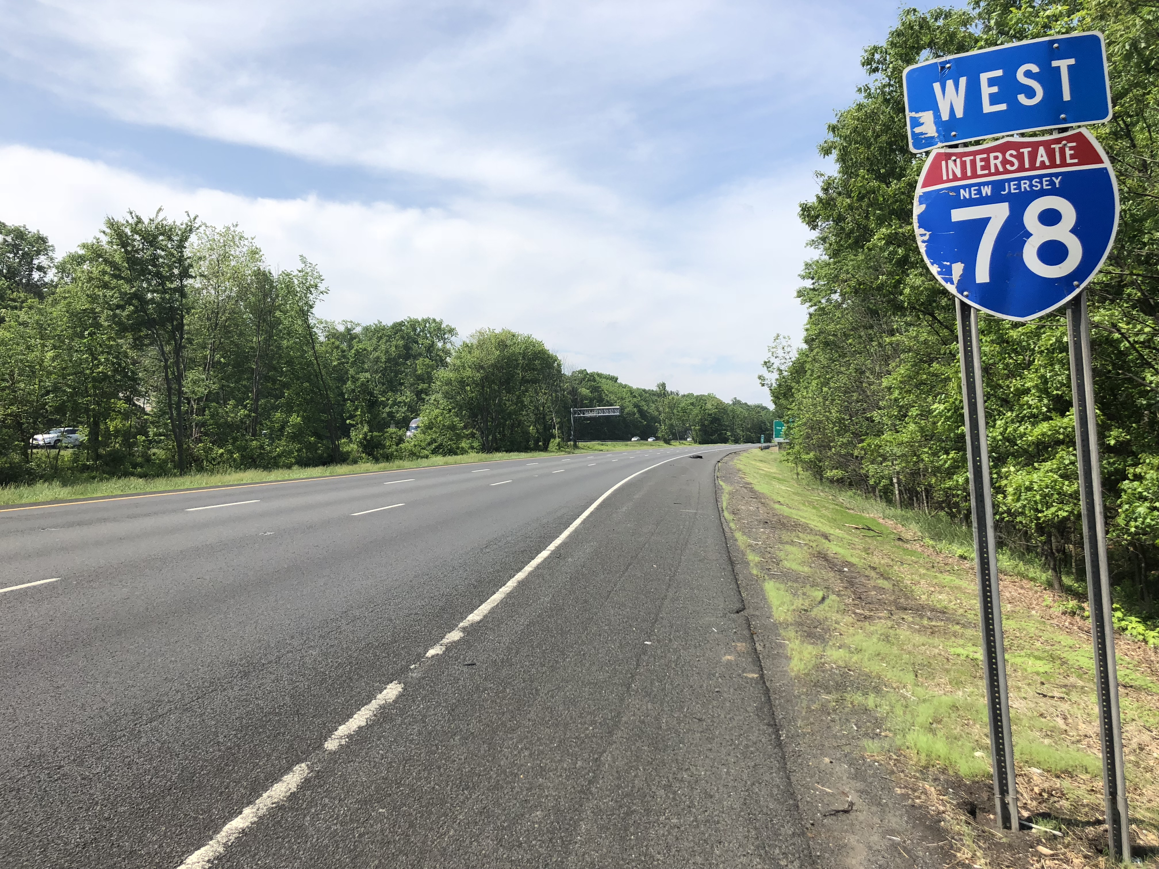 View west along Interstate 78 (Phillipsburg-Newark Expressway) between Exit 41 and Exit 40 in Watchung, Somerset County, New Jersey